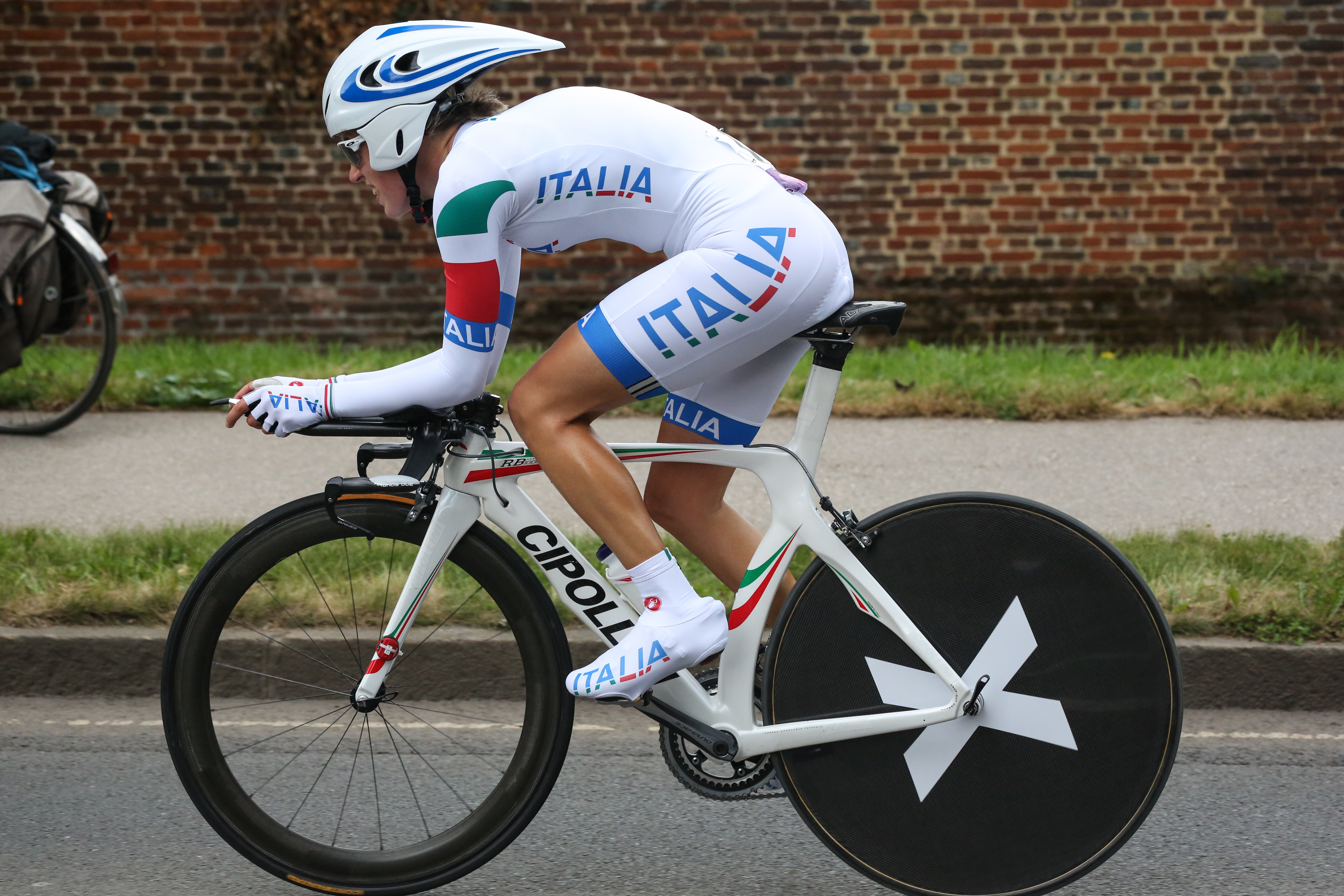 Noemi Cantele competing in the London 2012 Women's Olympic Time Trial.